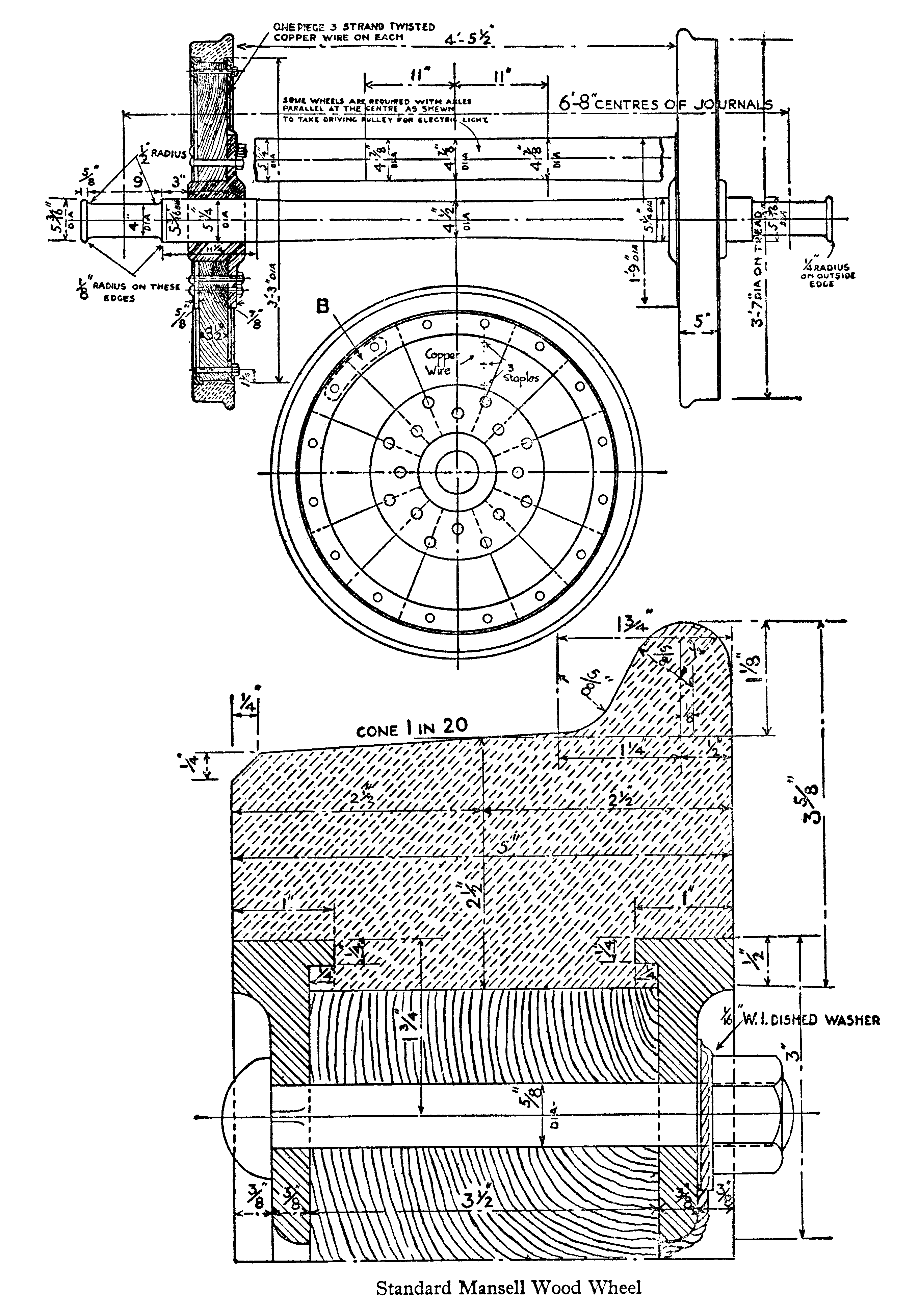 Mansell wheel, from Railway Mechanical Engineering, Volume 1, 1923